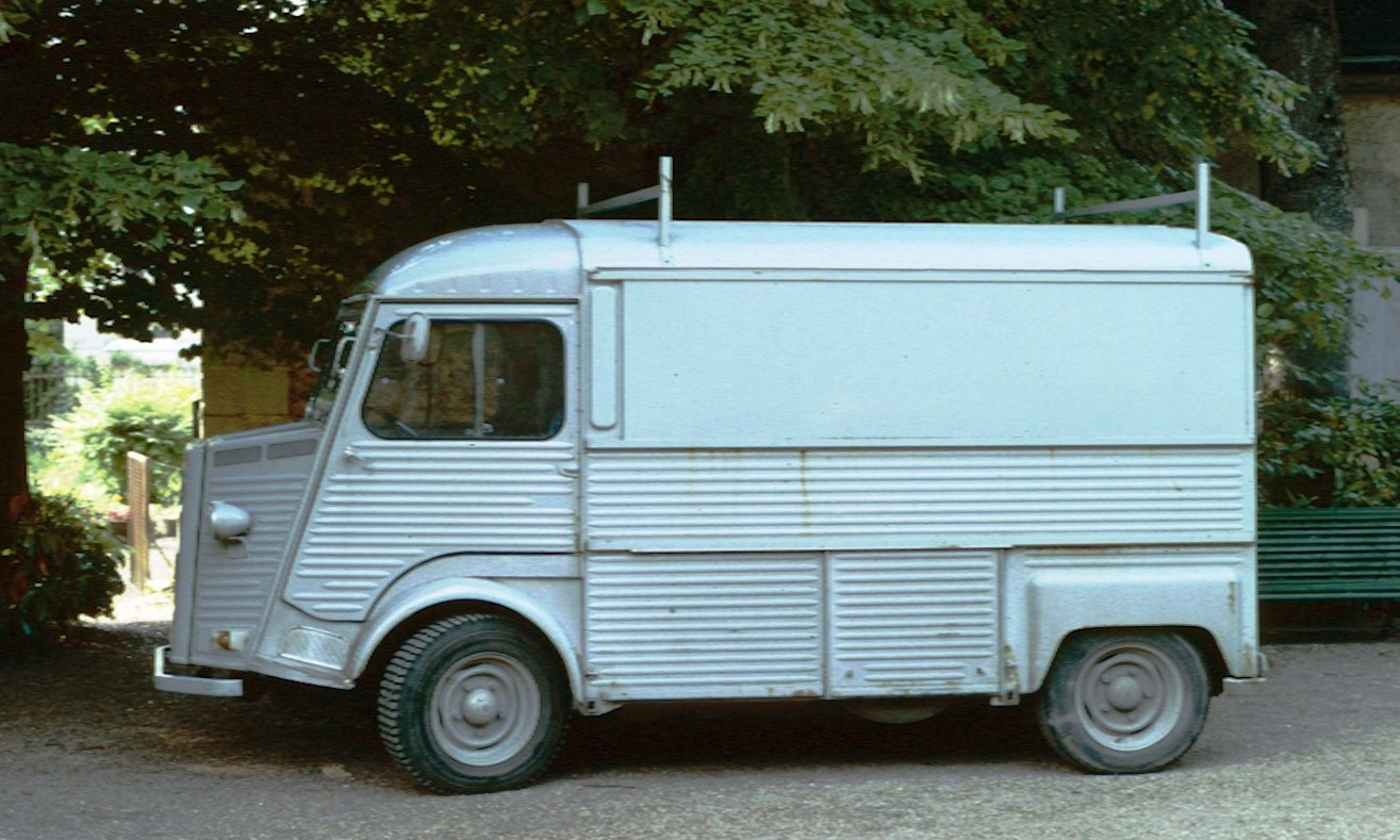 Citroen H Van looking well preserved in Châteaudun